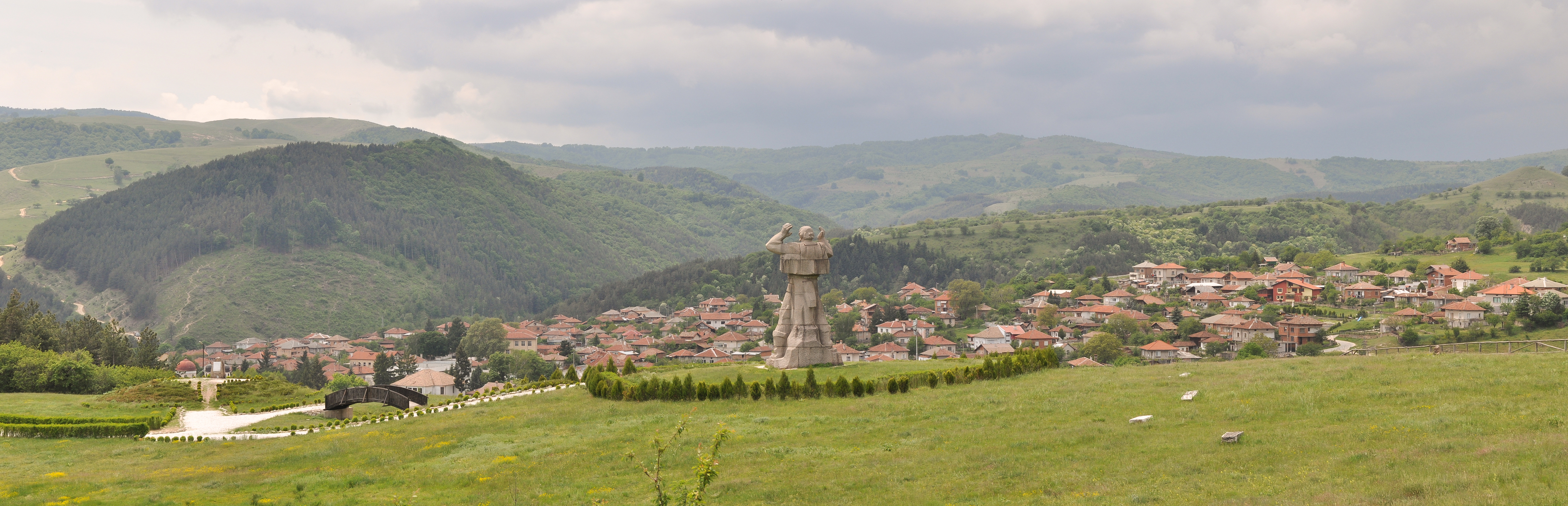 Panoramic view of Klisura town with Borimechkata monument, Bulgaria.